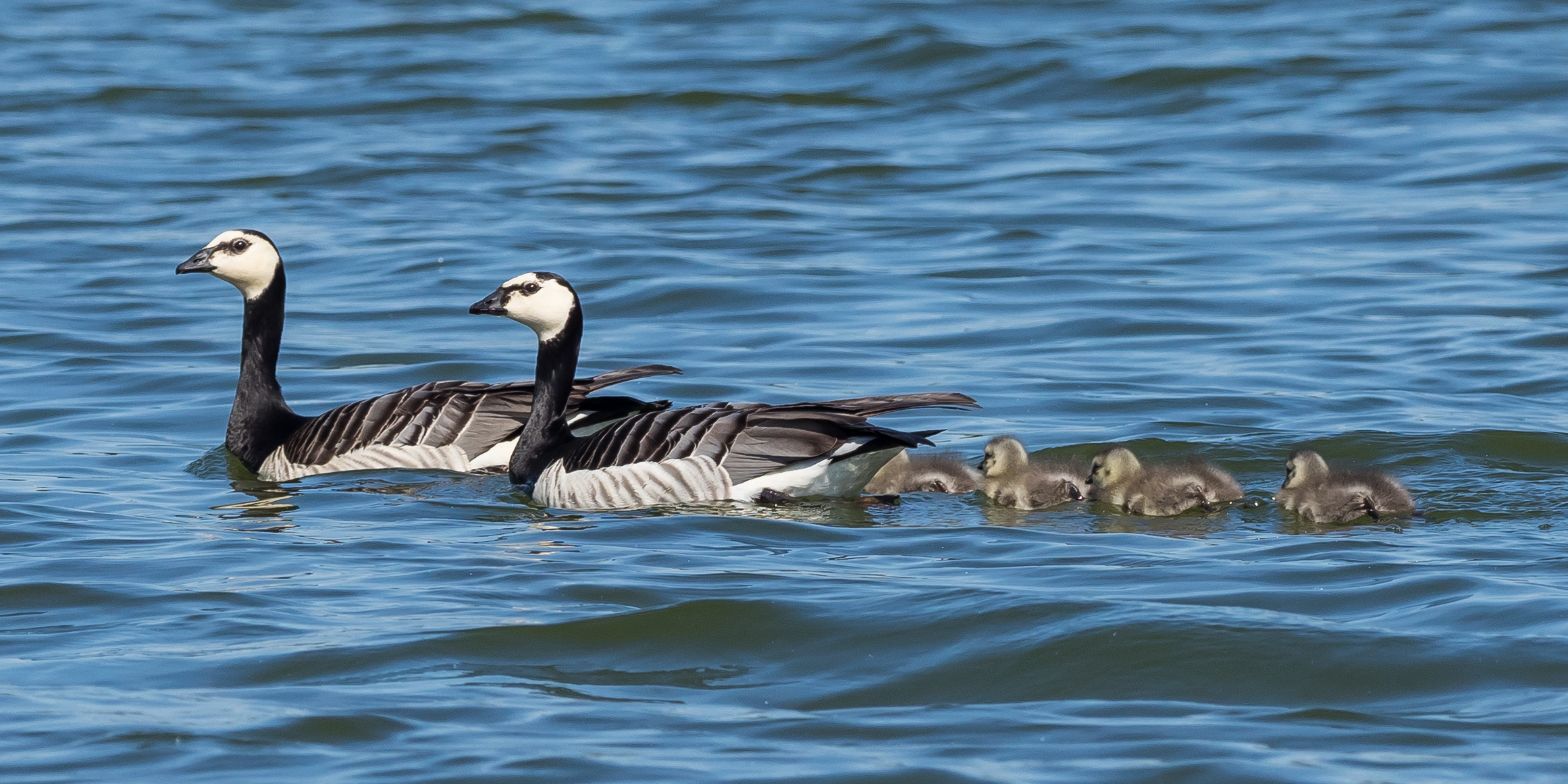 Vitkindad gås, Barnacle Goose, Branta leucopsis Vaxholm, Sweden, June 2016